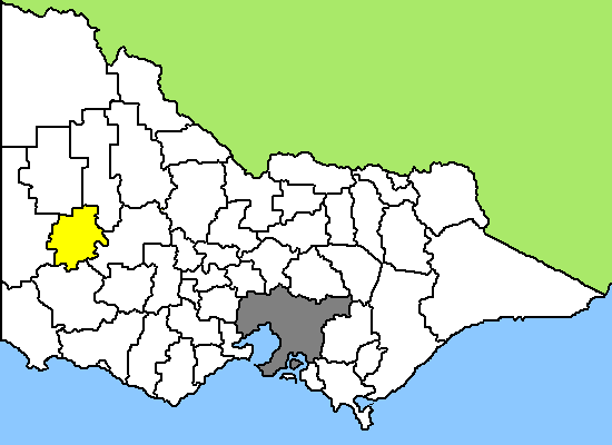 Map of Victoria/Australia, LGA of the Rural City of Horsham highlighted